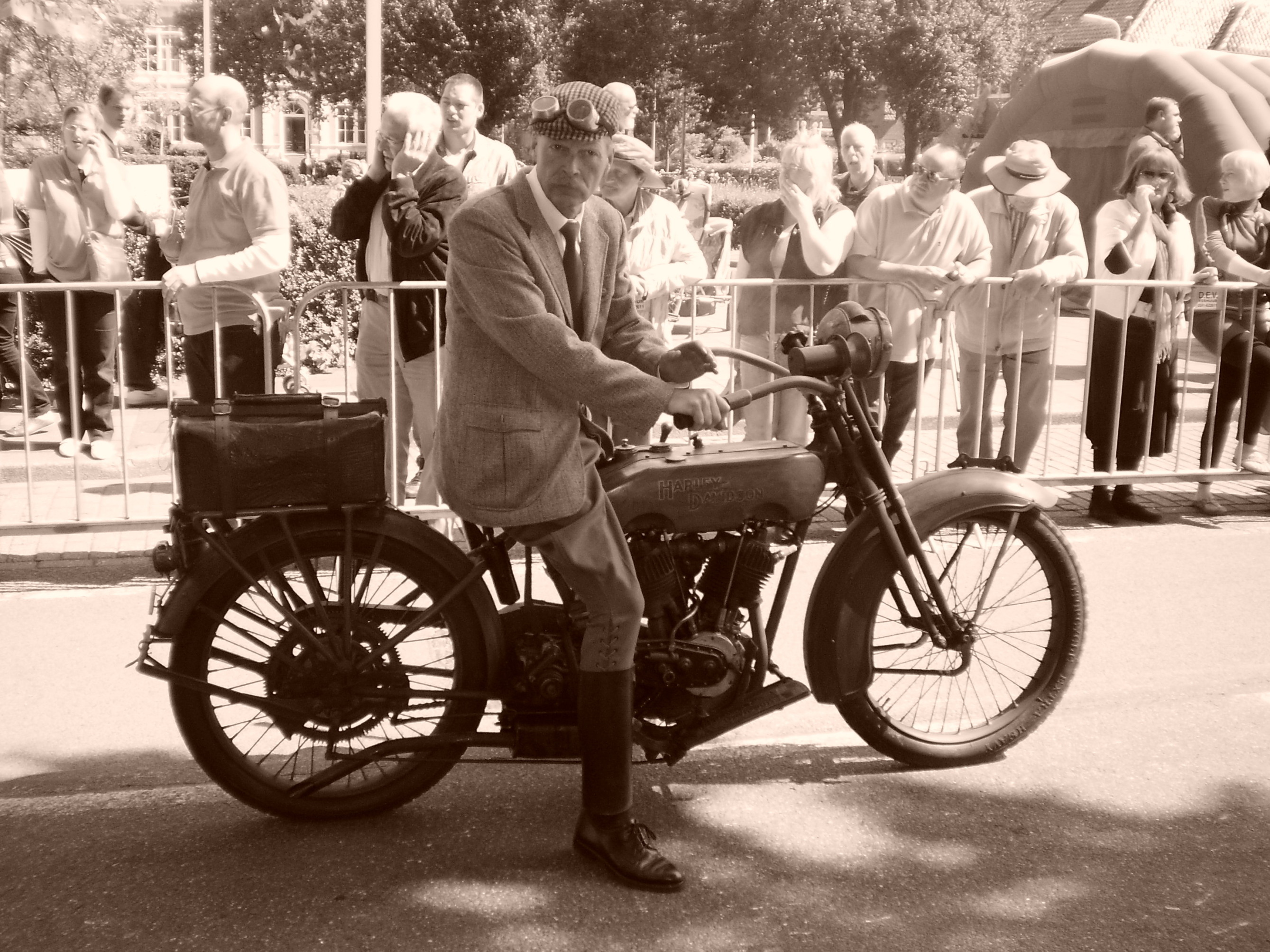 Participant in historical parade, Koninginnedag 2009